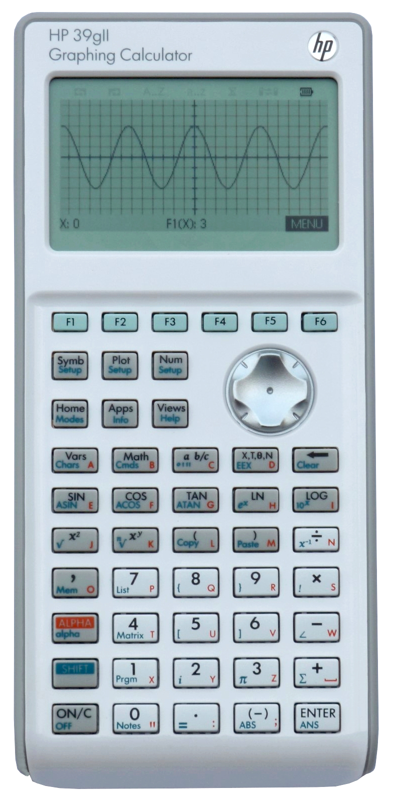 HP39Gii Graphing Calculator